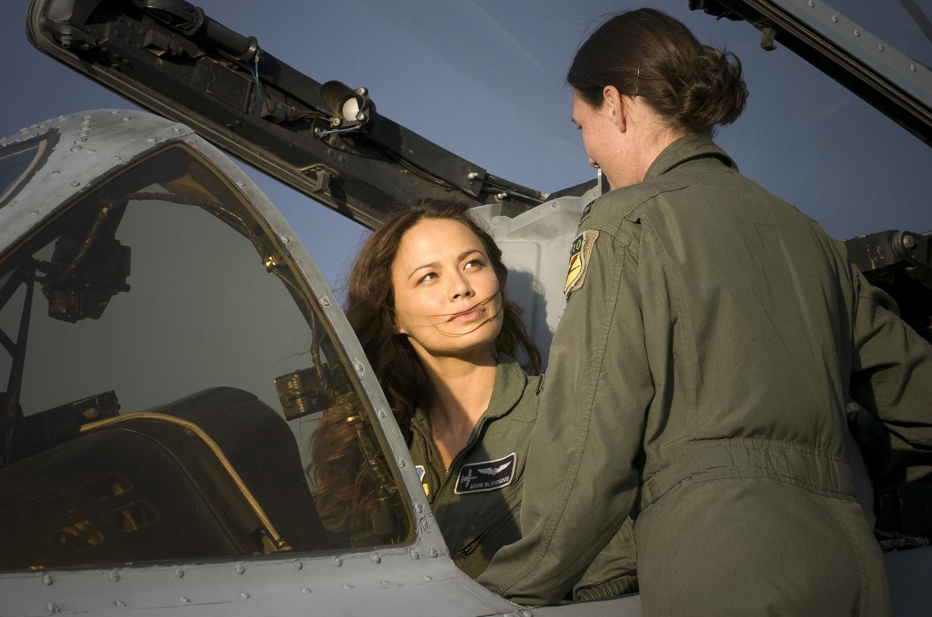 Capt. Jennie Schoeck (right) shows the cockpit of an A-10 Thunderbolt II to actress Moon Bloodgood during the production of Terminator Salvation at Kirtland Air Force Base, N.M. Captain Schoeck is assigned to the 358 Fighter Squadron at Davis-Monthan Air Force Base, Ariz., and was the A-10 advisor for the production. Moon Bloodgood portrays a lead resistance pilot in the movie.